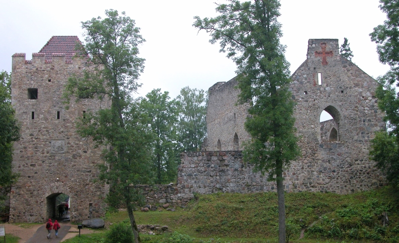 Sigulda, Latvia: Castle in the rain.